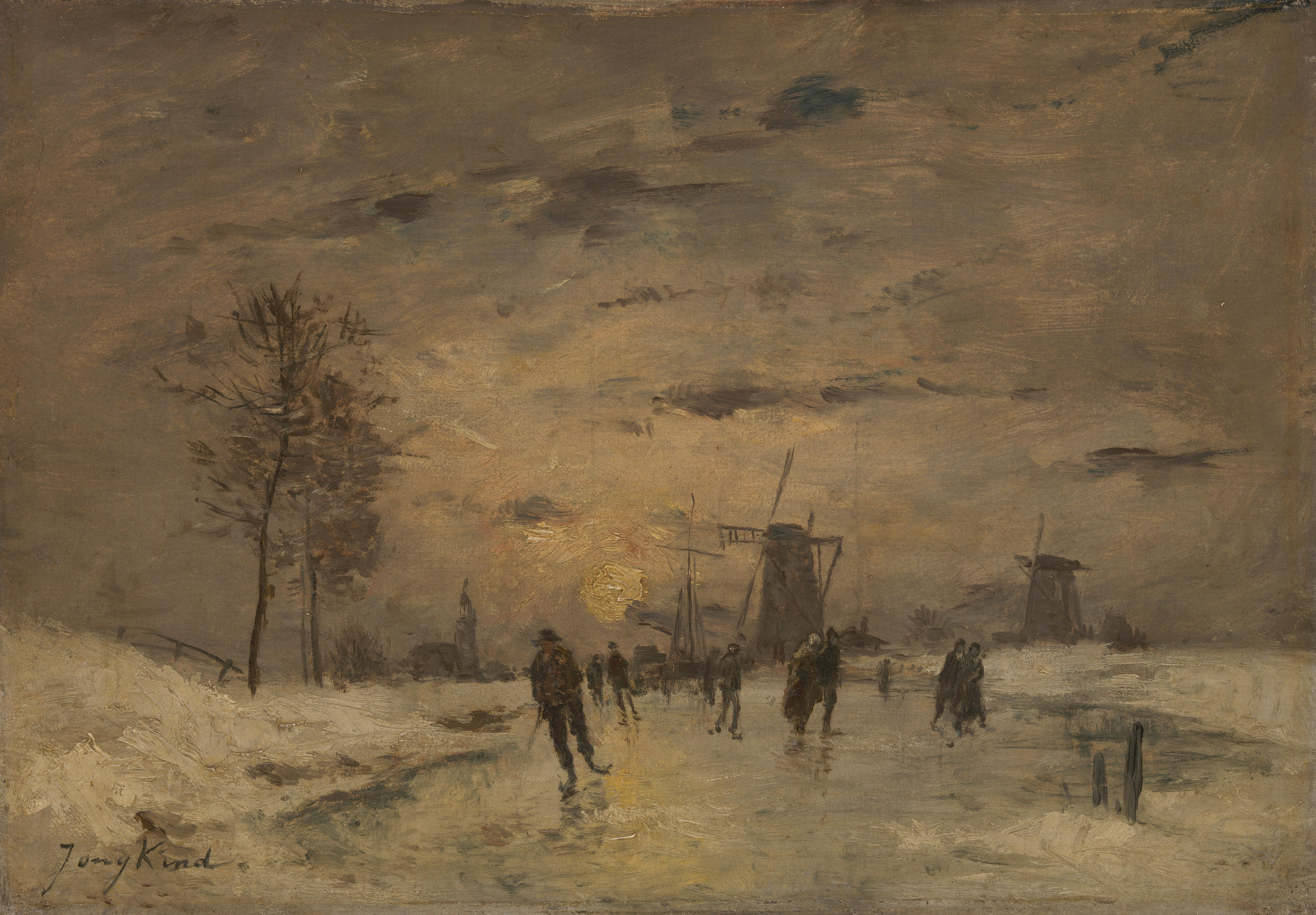 Skating in Holland, Unknown author